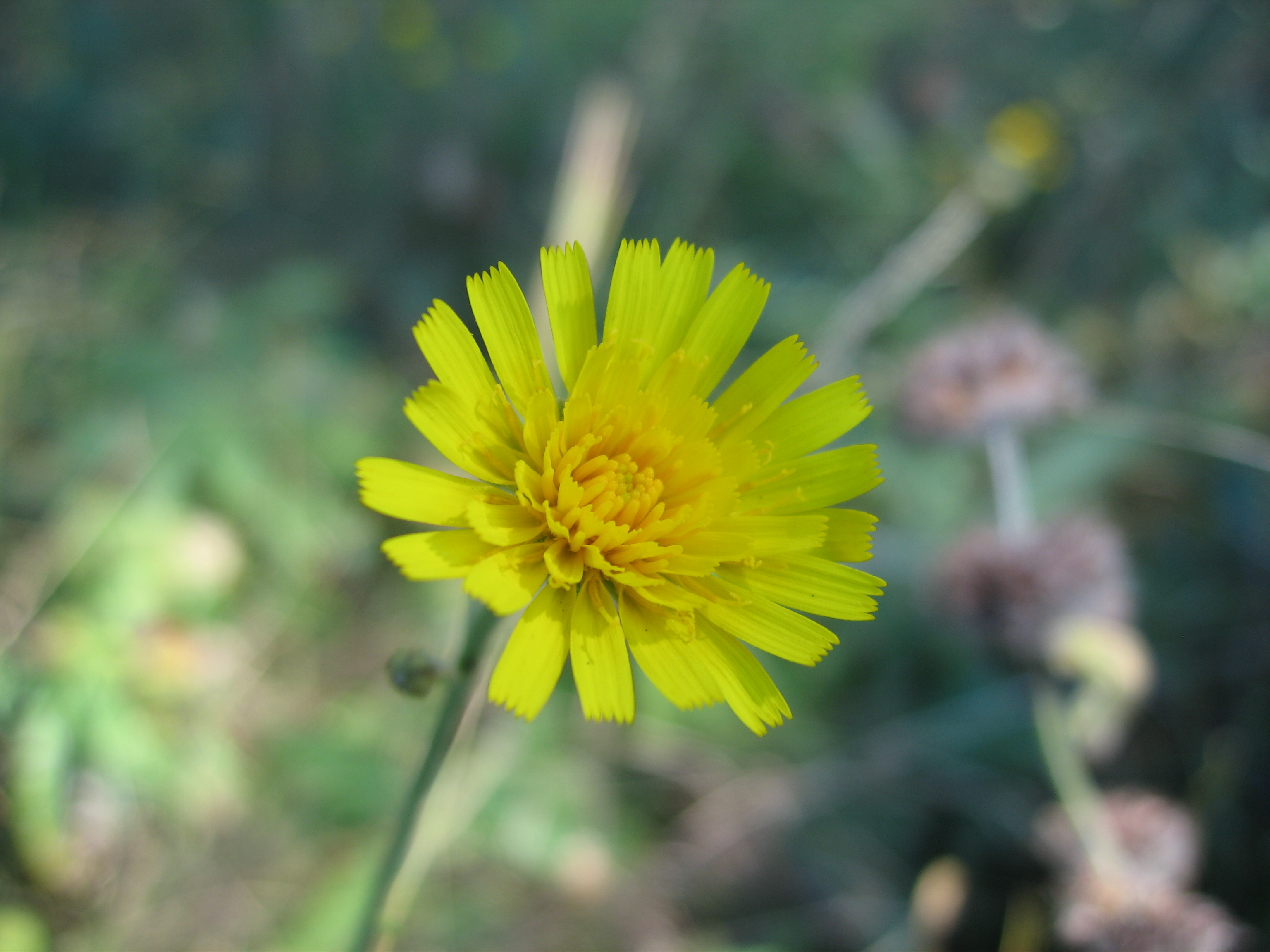 Hieracium sabaudum flower head